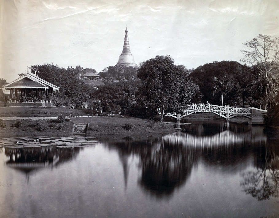 Photograph of the Cantonment Gardens in Rangoon (Yangon), Burma (Myanmar), taken by J. Jackson in about 1868, part of the Dunlop Smith Collection: Sir Charles Aitchison Album of Views in India and Burma. The Cantonment Gardens were situated immediately to the south-west of the Shwe Dagon Pagoda within the military cantonment. They were planned in 1854-56 by William Scott of the Calcutta Botanic Gardens and laid out by the city's Public Works Department. This was a popular view of the gardens. With a summerhouse to the left and a rustic wooden bridge to the right, it is centred on the spire of the Shwe Dagon on the skyline, and its reflection in the lake. A gilded bell-shaped stupa, the pagoda can be glimpsed from all over Rangoon due to its elevated position on Singuttara Hill.